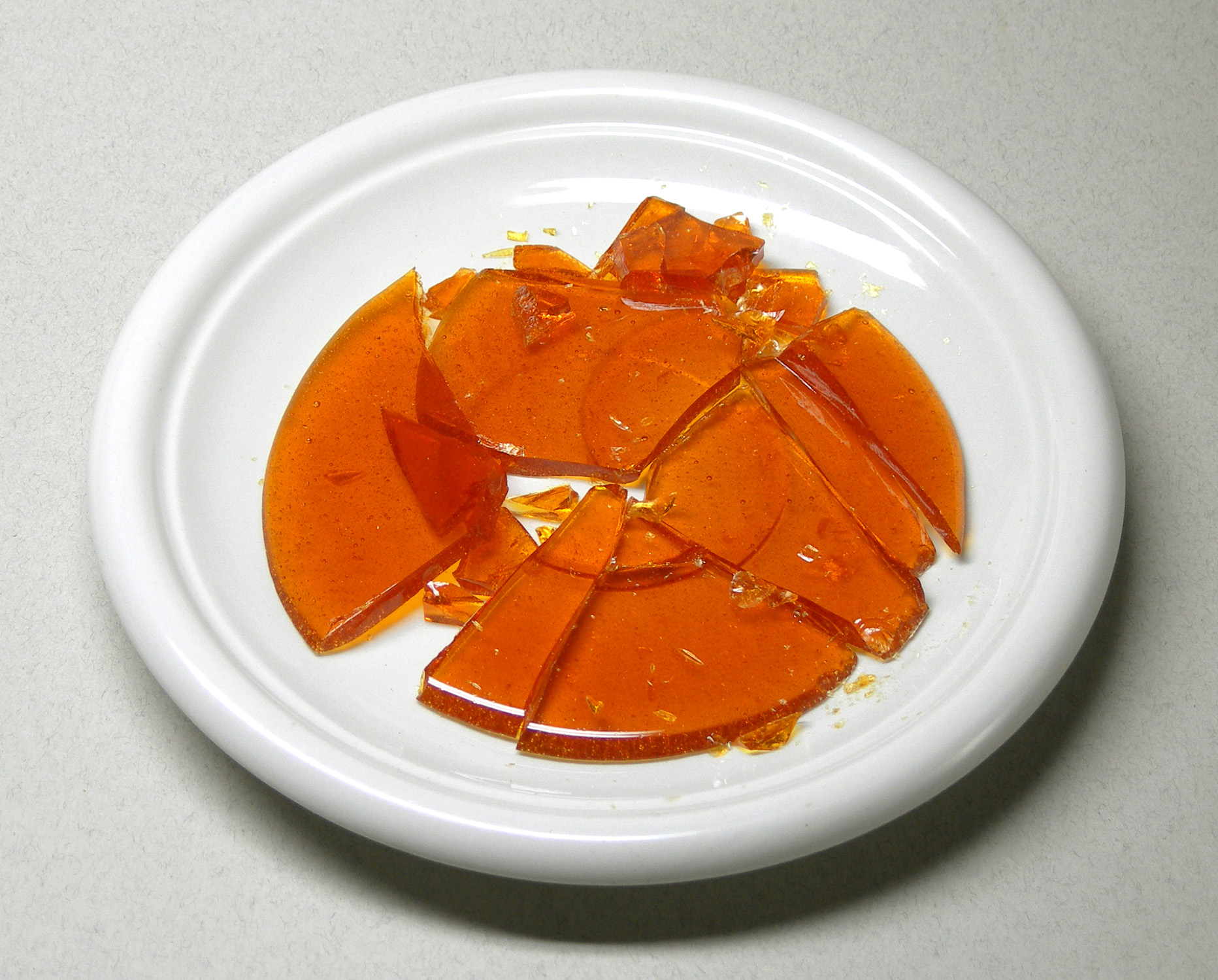 Caramel, stiffened and broken